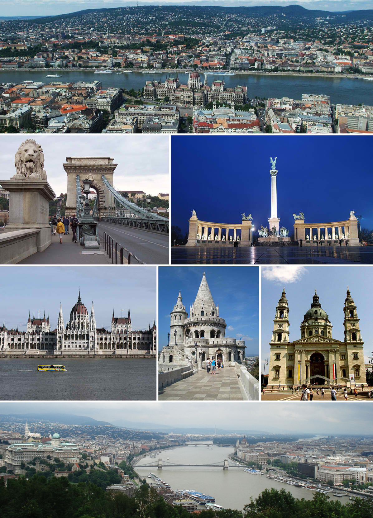 From top, left to right: view of the city with the Danube River, lion guarding the Chain Bridge, Heroes' Square, the Parliament Building, Fisherman's Bastion, St. Stephen's Basilica, and a panorama from Gellért Hill with Buda Castle on the left